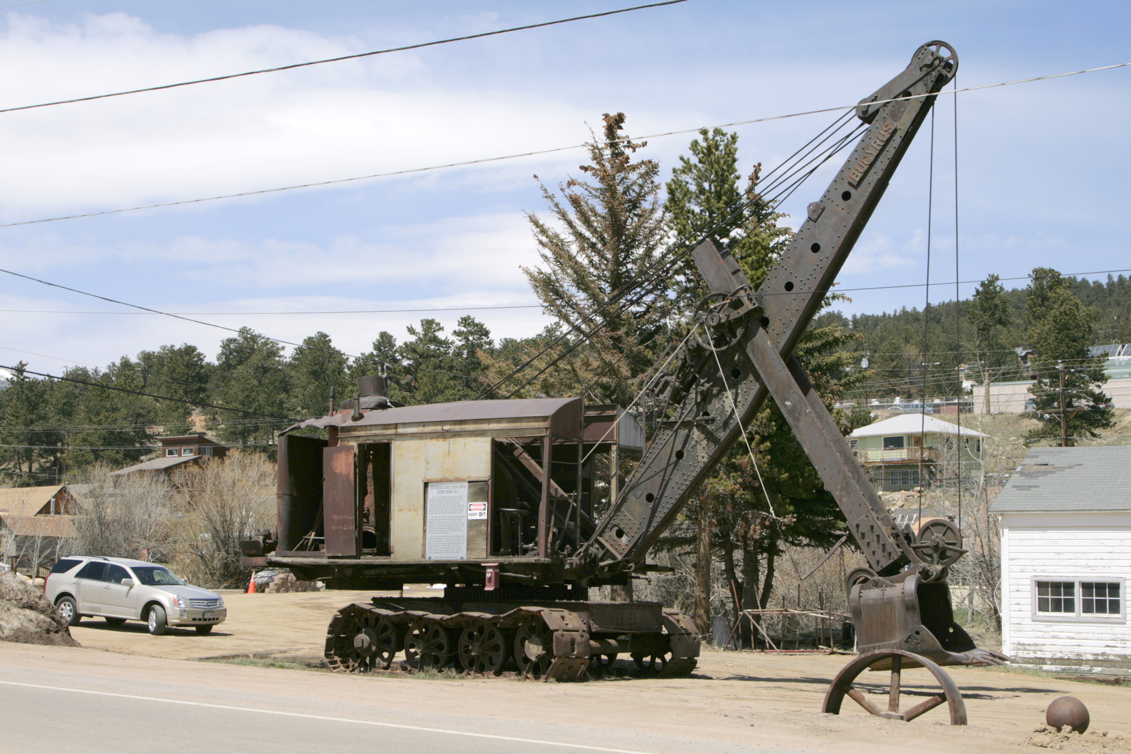 A preserved 1923 Bucyrus Model 50-B steam shovel at the Nederland Mining Museum in Colorado, USA. This steam shovel is the last surviving Model 50-B, 1 out of 25 built! It was built to dig the Panama Canal. This very machine was shown on an episode of Mega Movers (Season 2 Episode 3) on the History Channel.